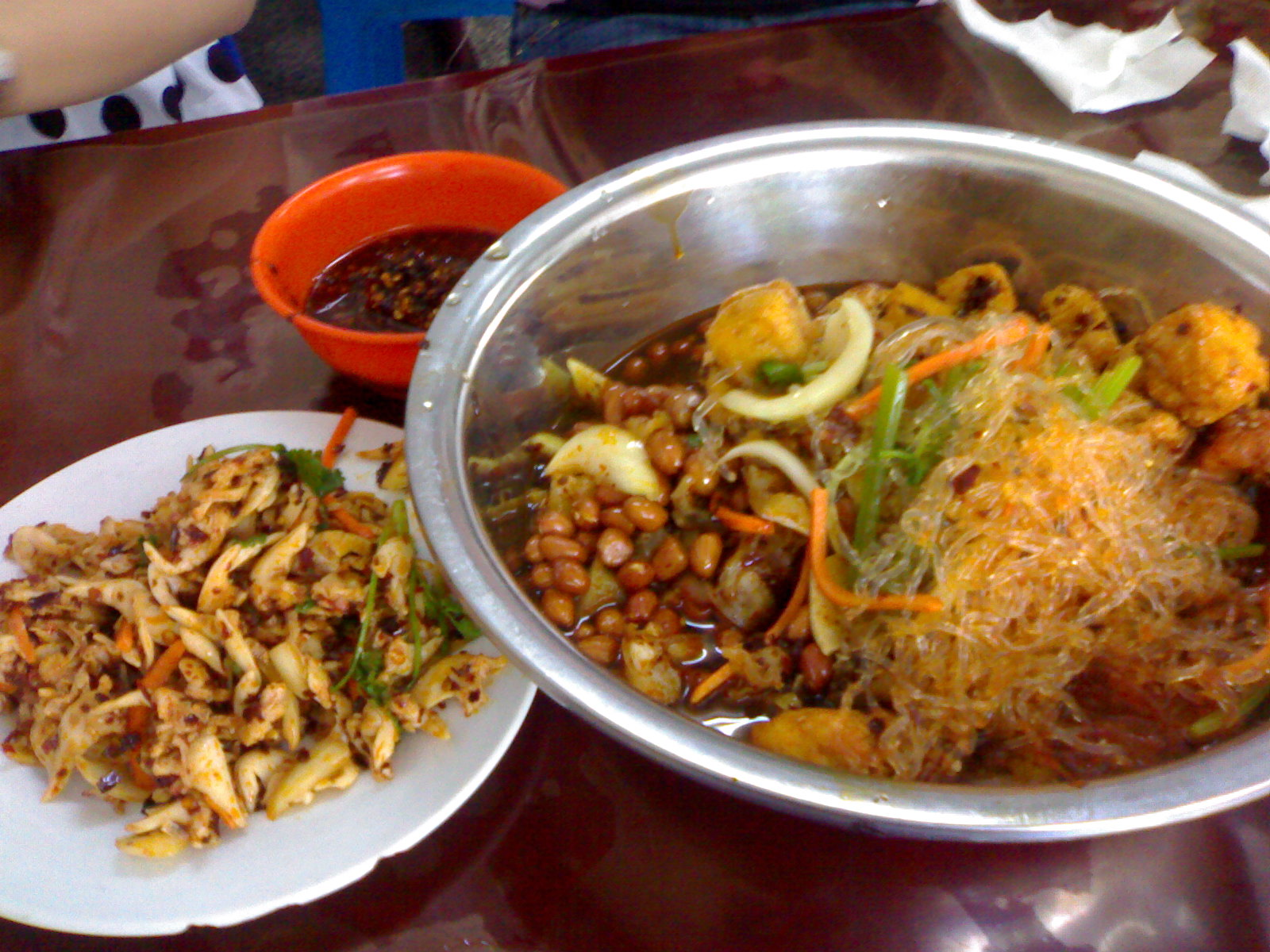 dish for jixi cold nooles